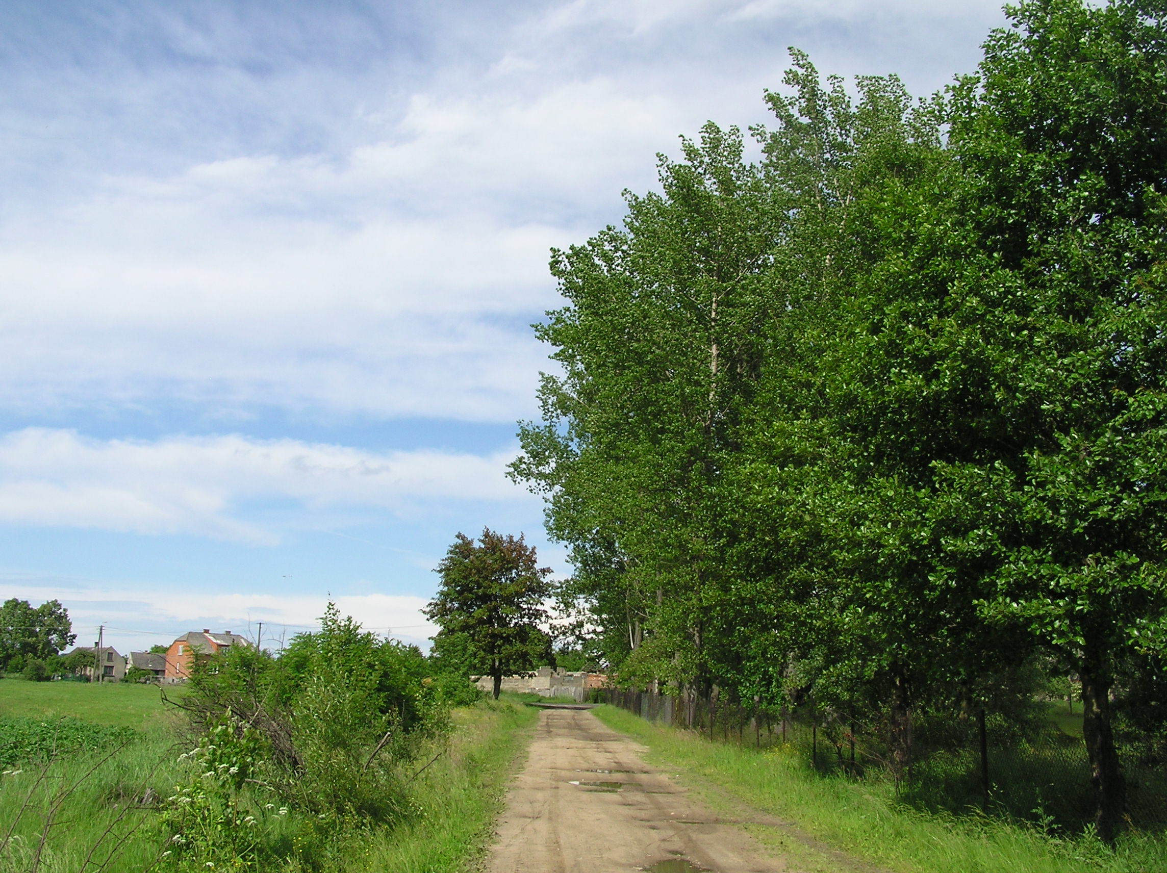 Złoczew (Poland, Łódź Voivodeship, Sieradz County), Starowiejska Street